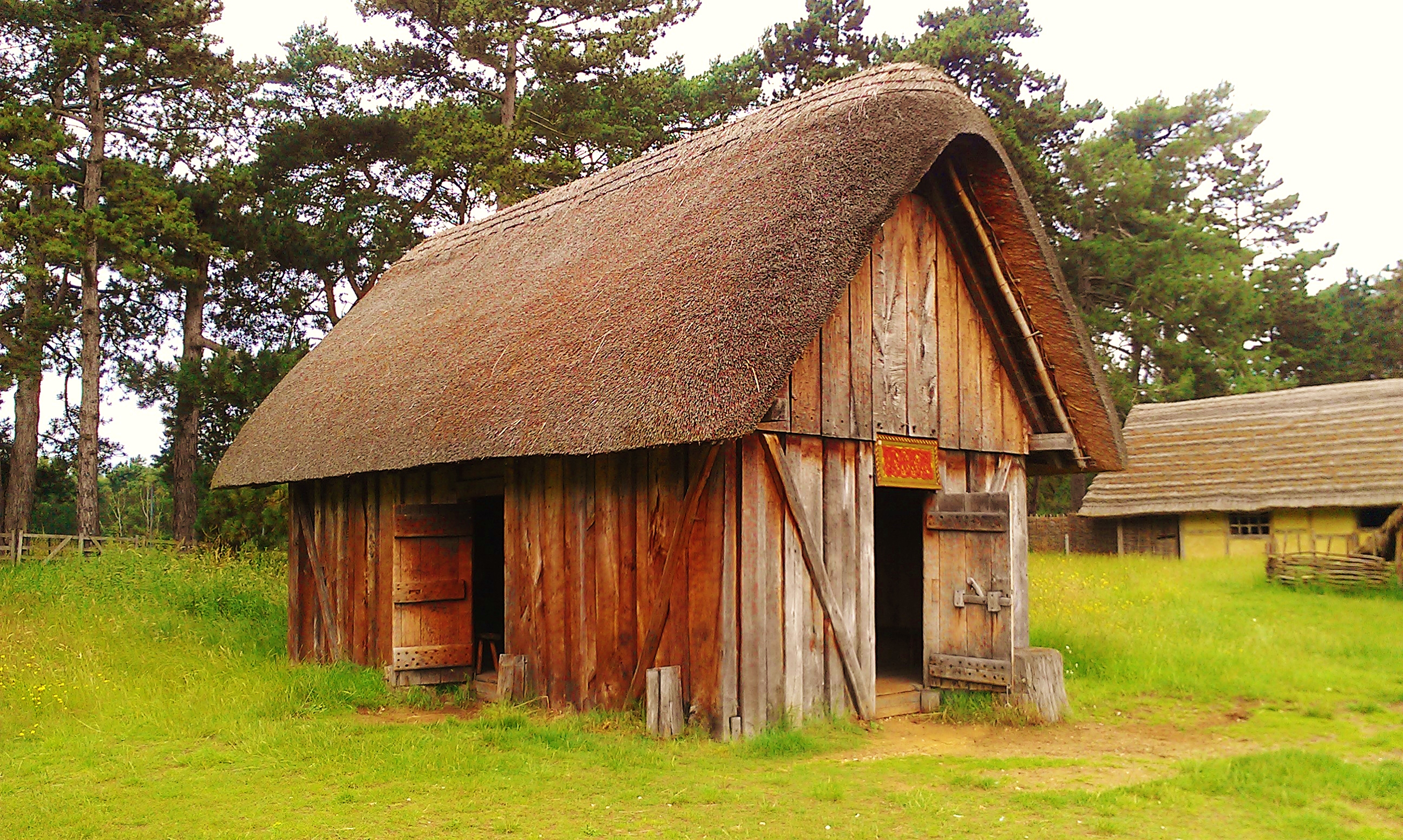 Building in the West Stow Anglo-Saxon village, constructed in the style of buildings from Anglo-Saxon England.